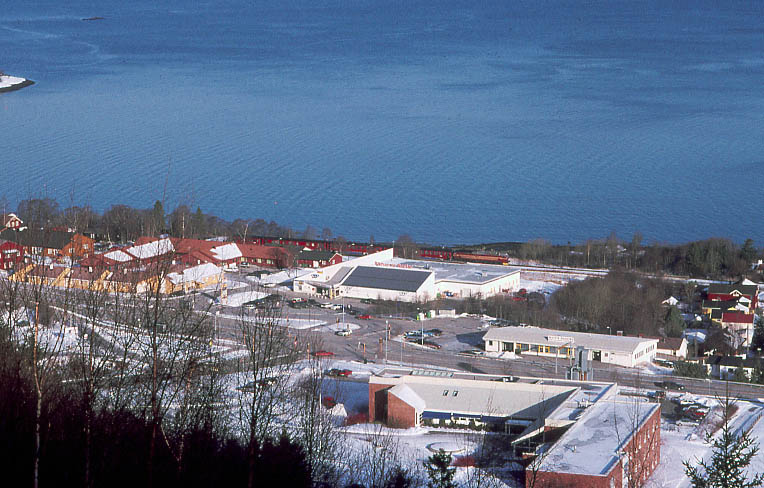 Vikhammer in Malvik, near Trondheim, Norway